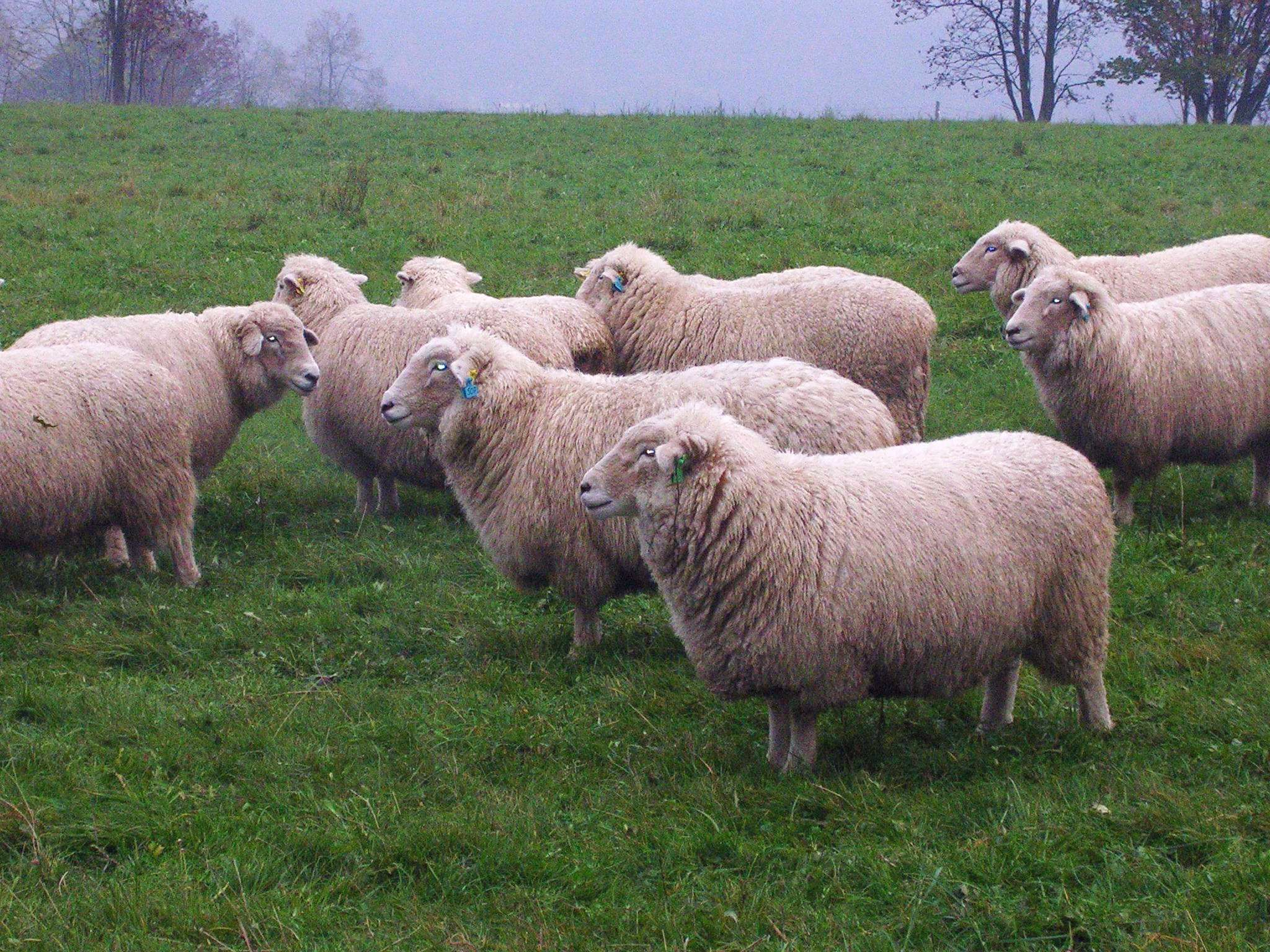 Paseky nad Jizerou, Semily District, Liberec Region, the Czech Republic. Sheep near the ski lift. White eyes effect by flash use. - Google Maps - Google Earth